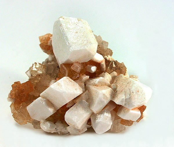 Leonite, Halite Locality: Wintershall Potash Works, Heringen, Werra Valley, North Hesse, Hesse, Germany (Locality at ) From a classic locality also in Germany: leonite as white pseudomorphs after sharp freestanding picromerite crystals to almost 2 cm. They are perched beautifully and 3-dimensionally on matrix of crystallized halite. 5.5 x 4.7 x 3.4 cm